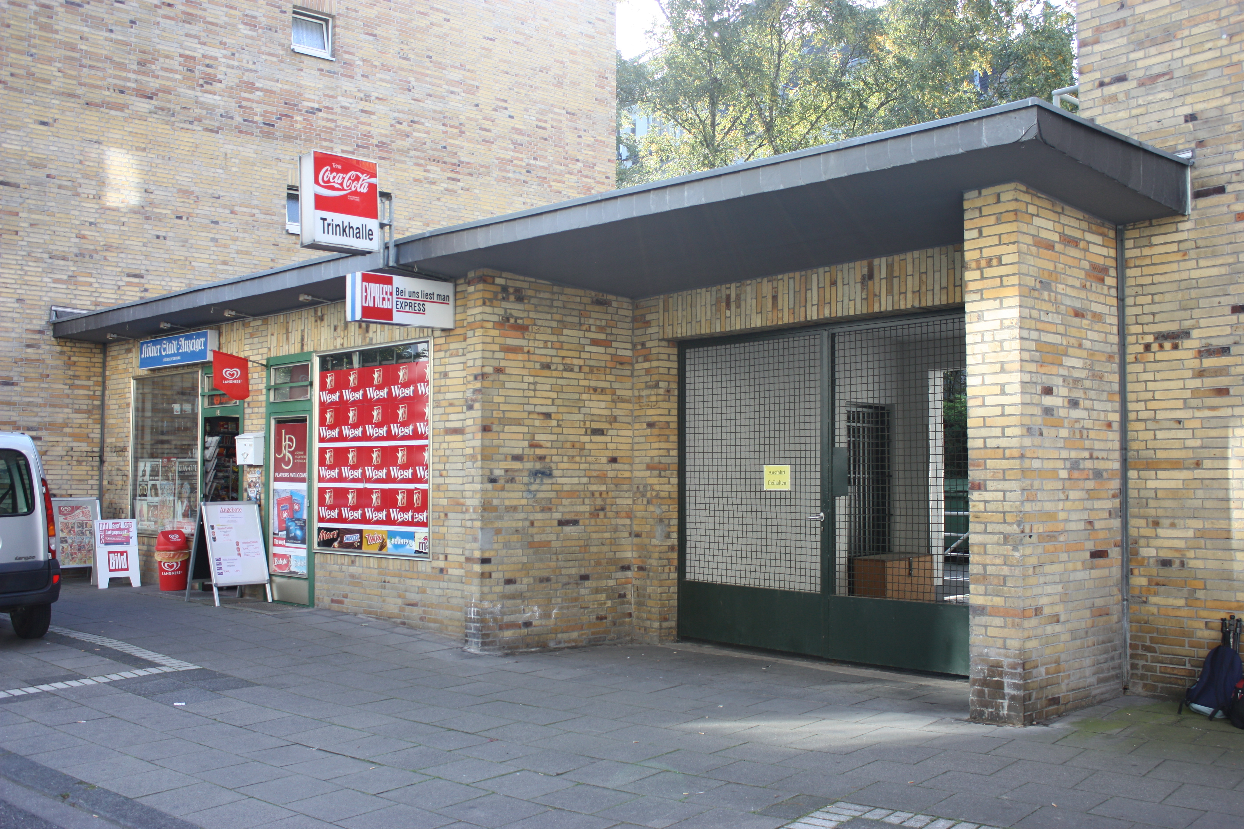 This is a photograph of an architectural monument.